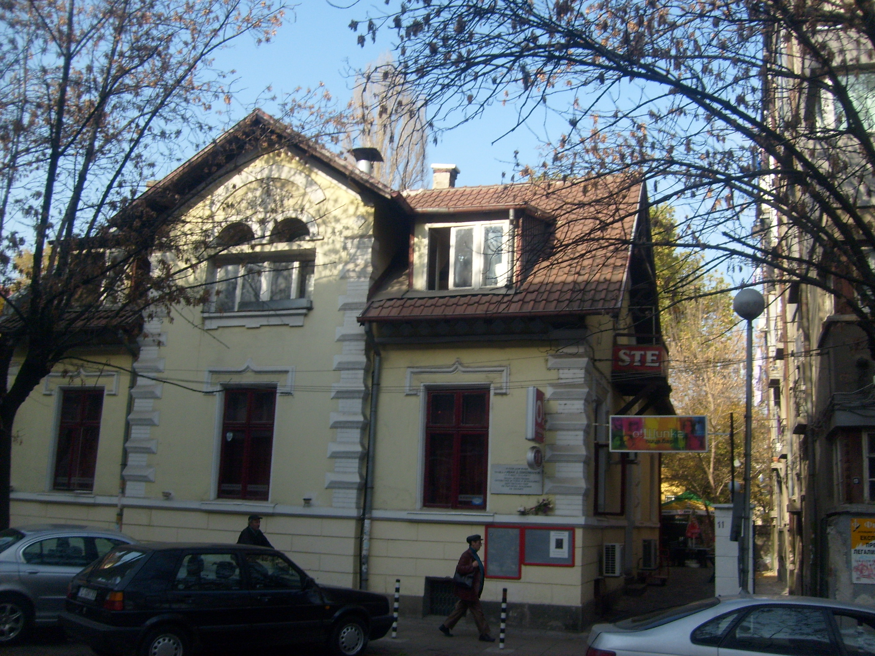 Sofia, Bulgaria O!Shipka pizza & bar